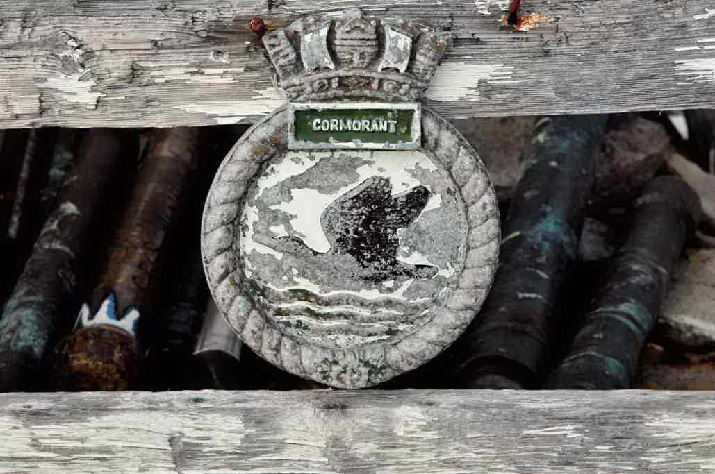 Beechey Island (Nunavut, Canada): Franklin memorial pyramid detail, featuring the crest of the HMCS Cormorant (ASL 20).